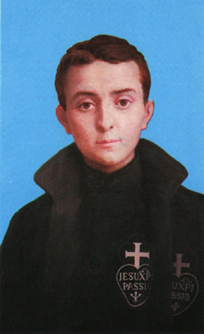 Painting over a tintype picture of St. Gabriel of Our Lady of Sorrows